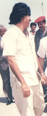 Ali Abdullah Saleh and Ali Salim Al-Beidh, picture was taken right the unification of Yemen 1990